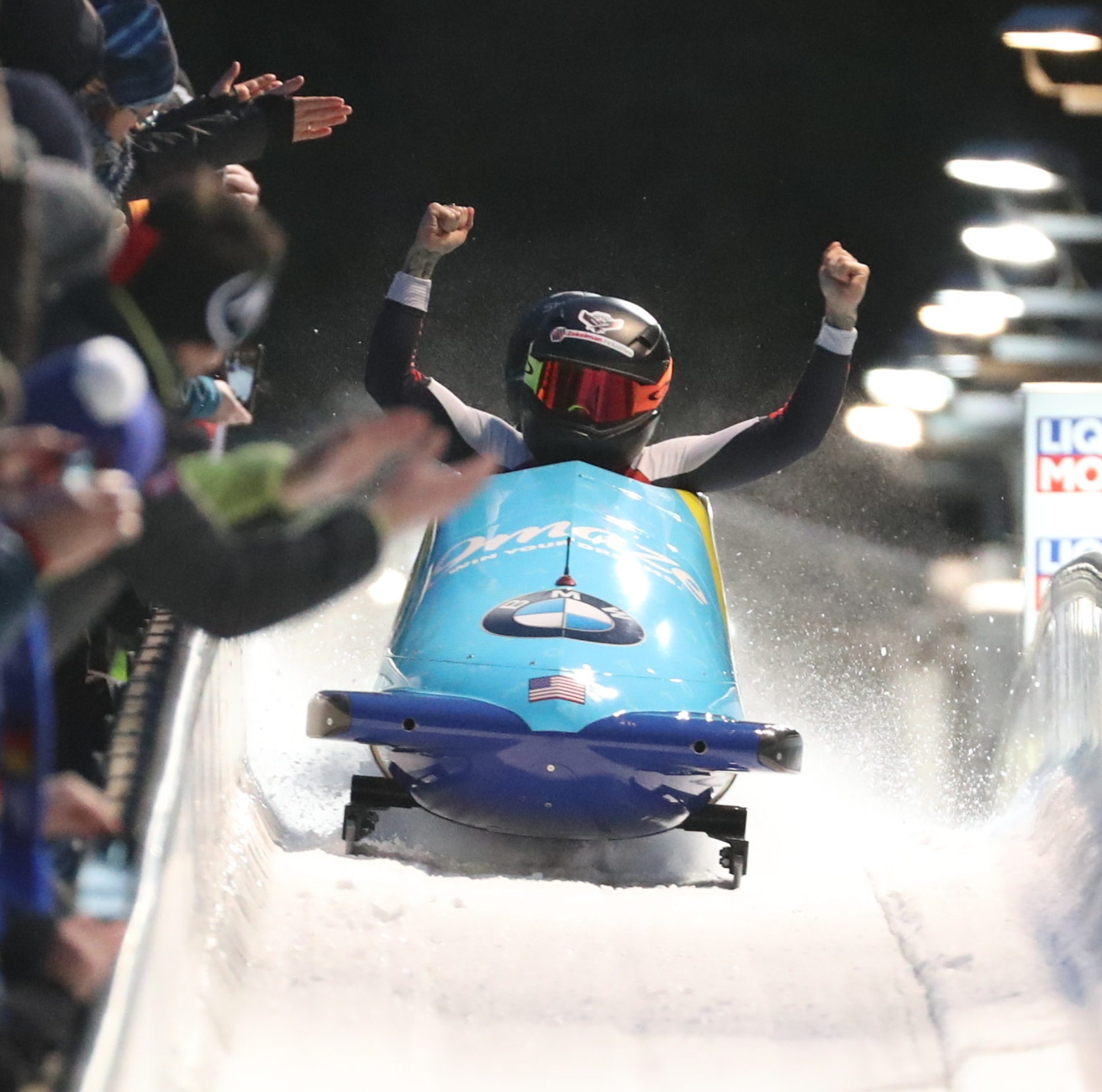 4th run at the 2-woman bobsleigh at the Bobsleigh and Skeleton World Championships 2020 in Altenberg